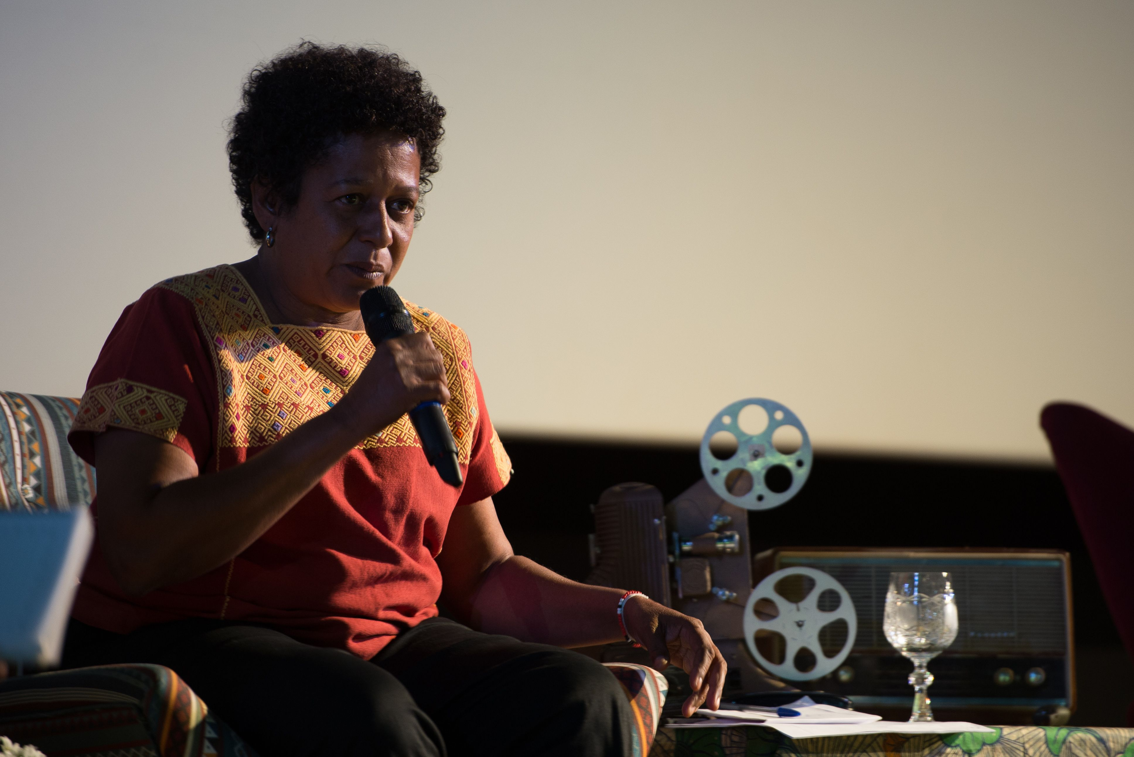 Photo by Macello Casal Jr/Agência Brasil CCBY3.0